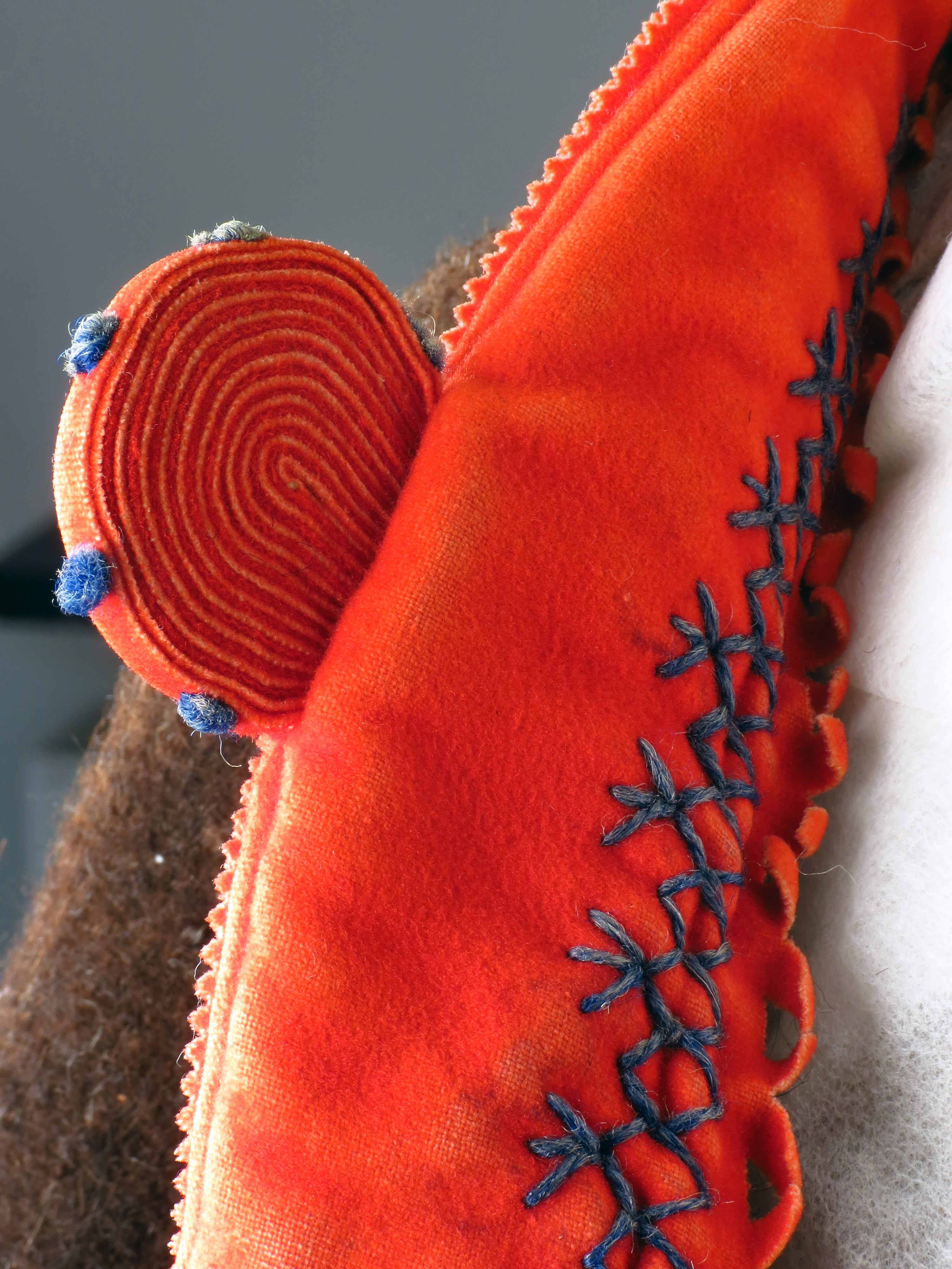 Gunia, woolen topcoat (collar - detail). Material: homespun cloth. Locality: Ochotnica Dolna. Ethnographic region: Podhale. The collection of The State Ethnographic Museum in Warsaw. PME 3671